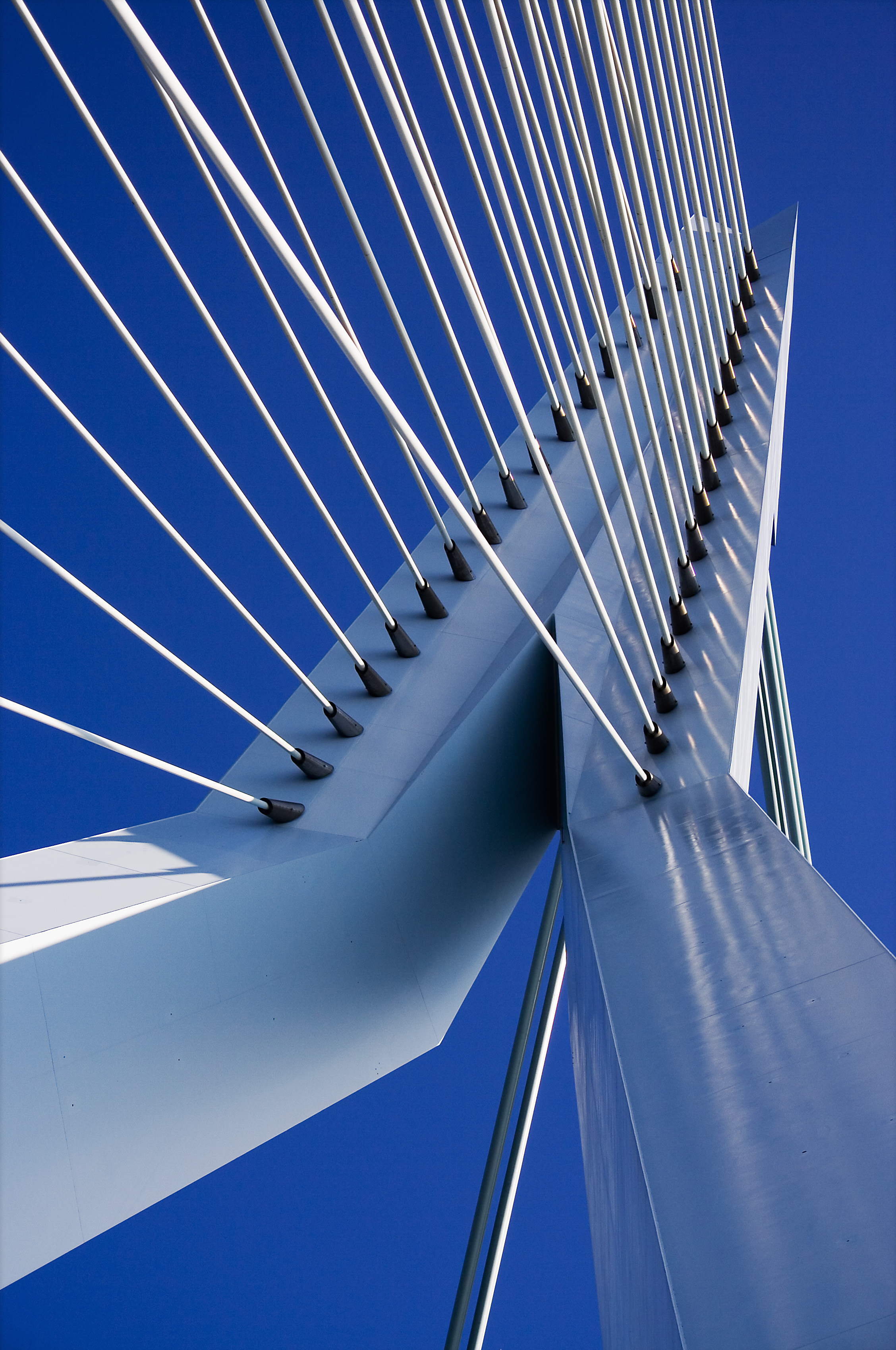 The Erasmusbrug ("Erasmus Bridge") is a cable stayed bridge across the Nieuwe Maas river, linking the northern and southern halves of the city of Rotterdam, Netherlands. The Erasmusbrug was designed by Ben van Berkel and completed in 1996. The 808 metre long bridge has a 139 metre-high asymmetrical pylon, earning the bridge its nickname of "The Swan". The southern span of the bridge has a 89 metre long bascule bridge for ships that cannot pass under the bridge. The bascule bridge is the largest and heaviest in West Europe and has the largest panel of its type in the world. The bridge was officially opened by Queen Beatrix on September 6, 1996, having cost 165 million Dutch guilders (about 75 million euros) to construct. Shortly after the bridge opened to traffic in October 1996, it was discovered the bridge would swing under particularly strong wind conditions. To reduce the trembling, stronger shock dampeners were installed. The bridge was featured in the 1998 Jackie Chan film Who Am I? In 2005 several planes flew underneath the bridge as part of the "Red Bull Air Race". From Wikipedia